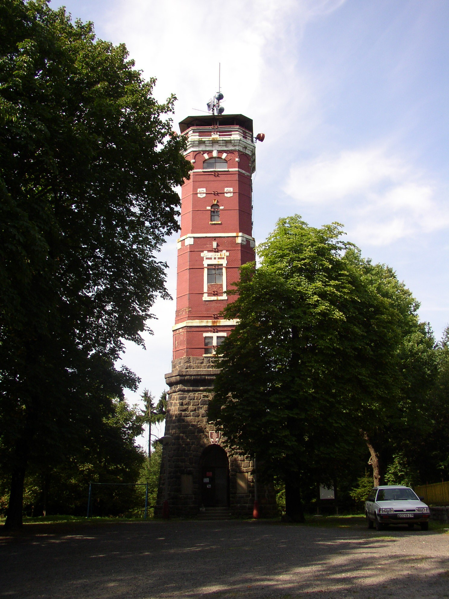 Watch tower on the Tanečnice.